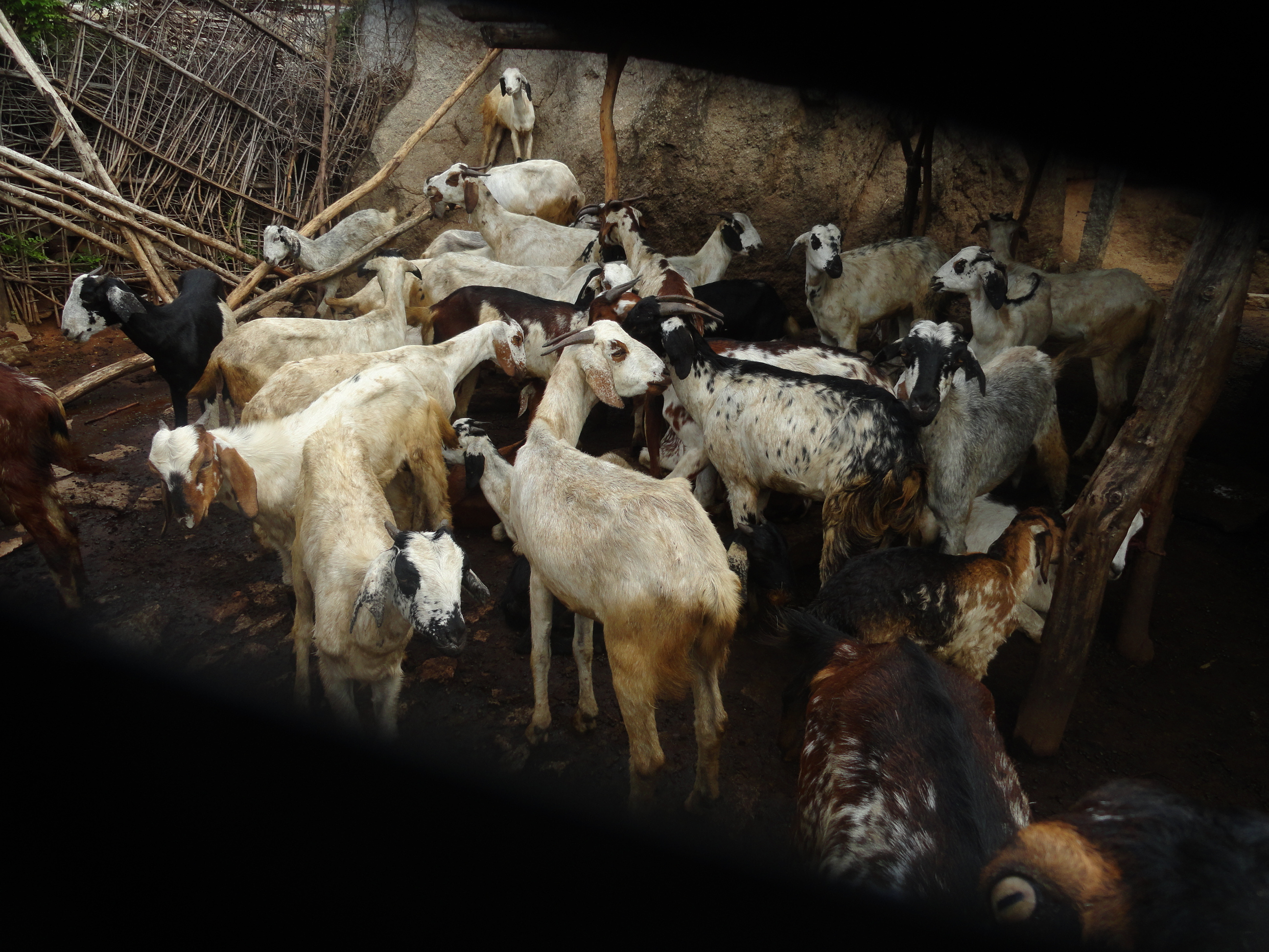 herd of goats in a camp